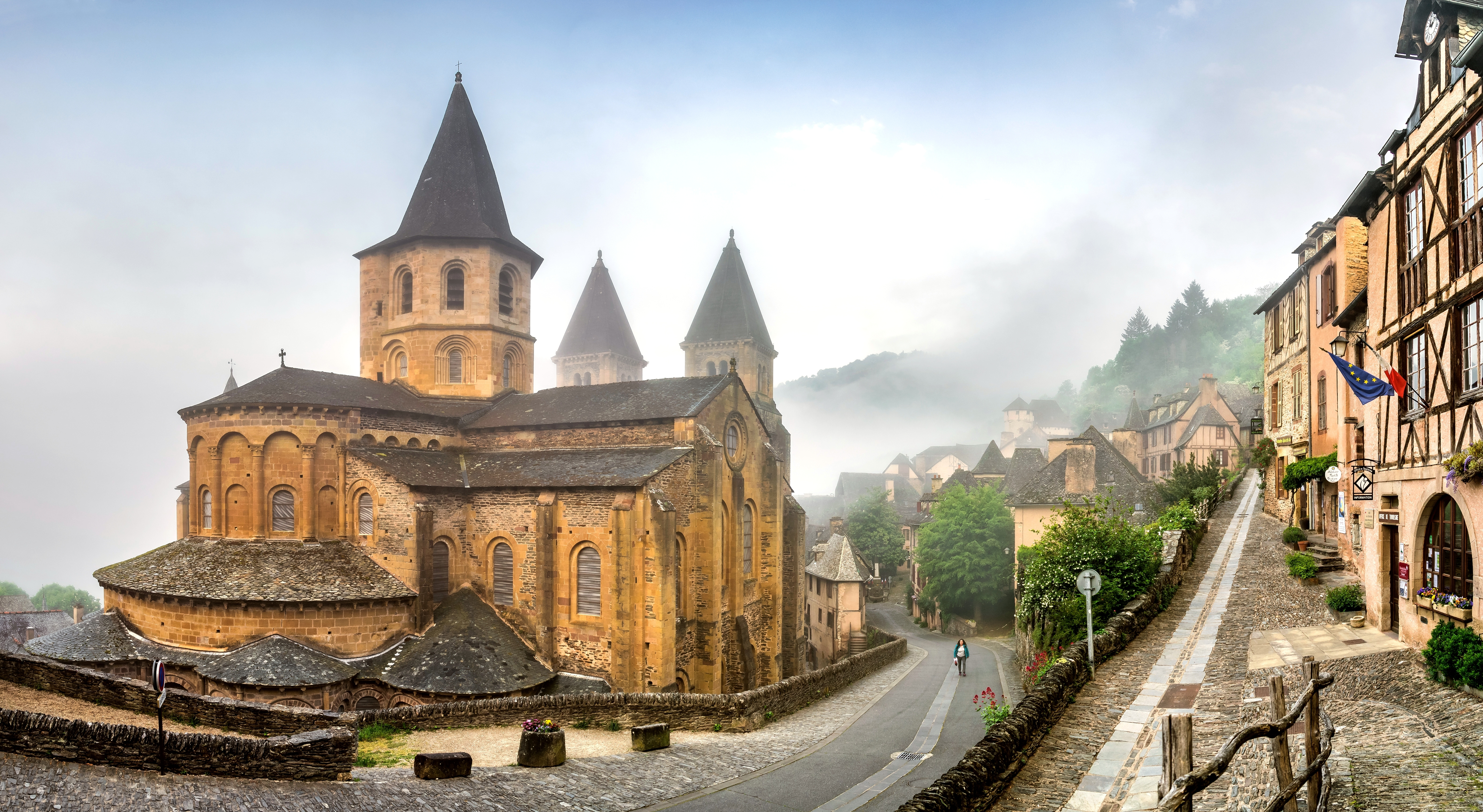 Saint Faith Abbey Church of Conques, Aveyron, France